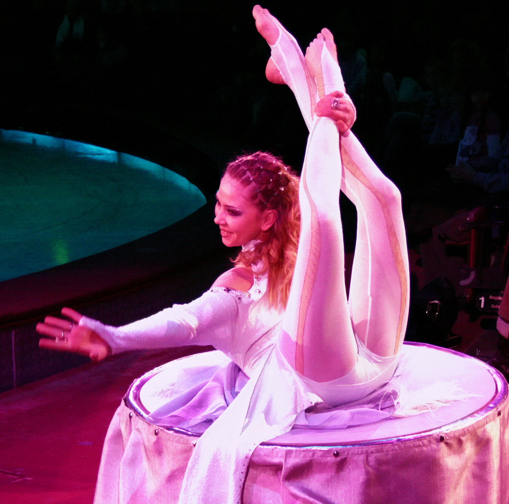 MARIA EFREMKINA a snake woman